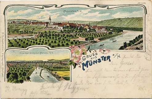 Stuttgar-Münster at about 1900